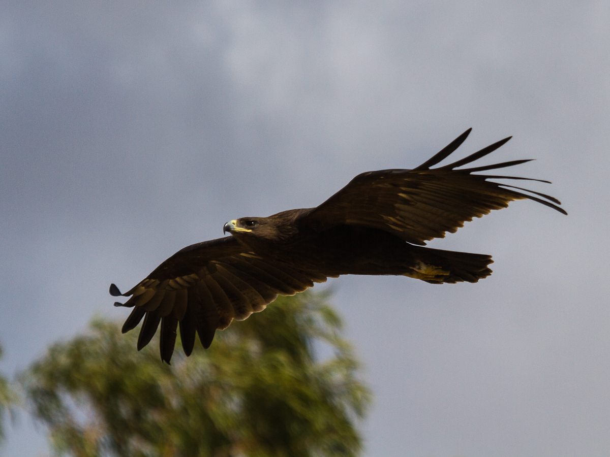 Greater spotted eagle - Aquila clanga - in flight.